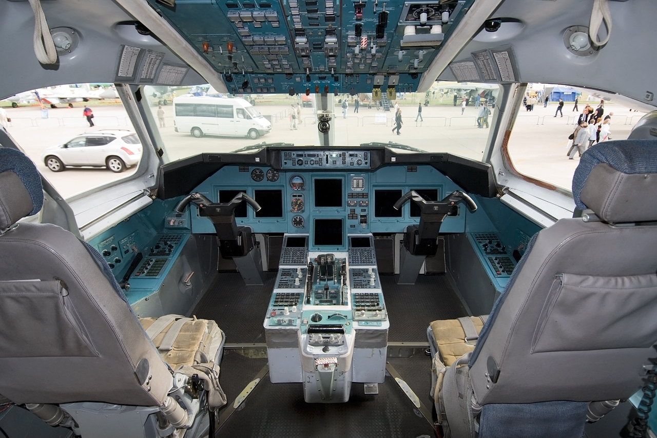 Cockpit of Tupolev Tu-334 airliner